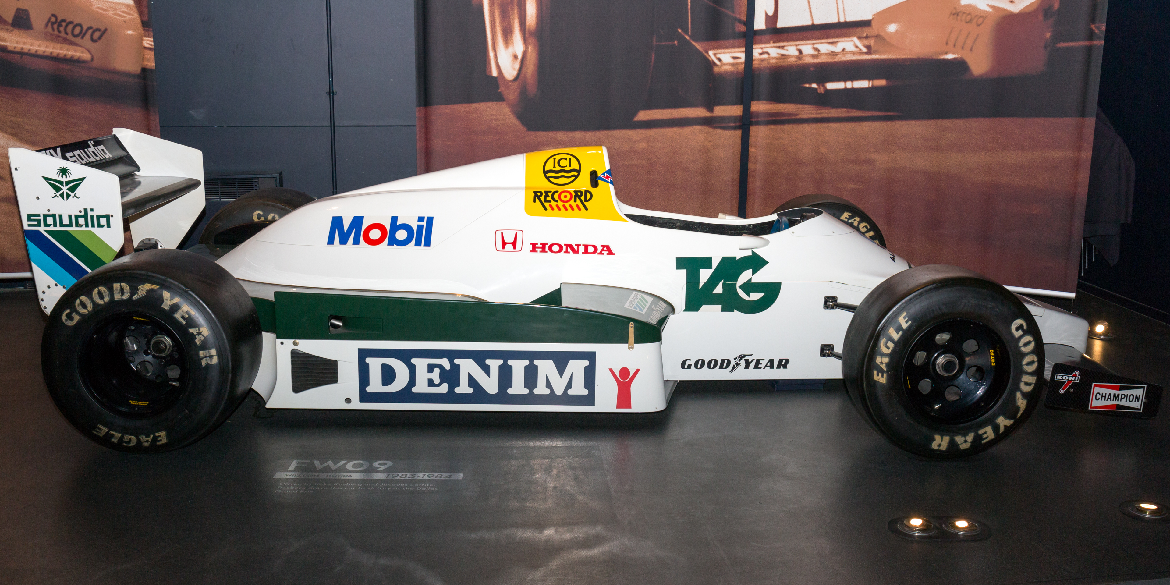 Williams Conference Centre (Grove): Williams FW08C of Jacques Laffite at the 1983 South African Grand Prix